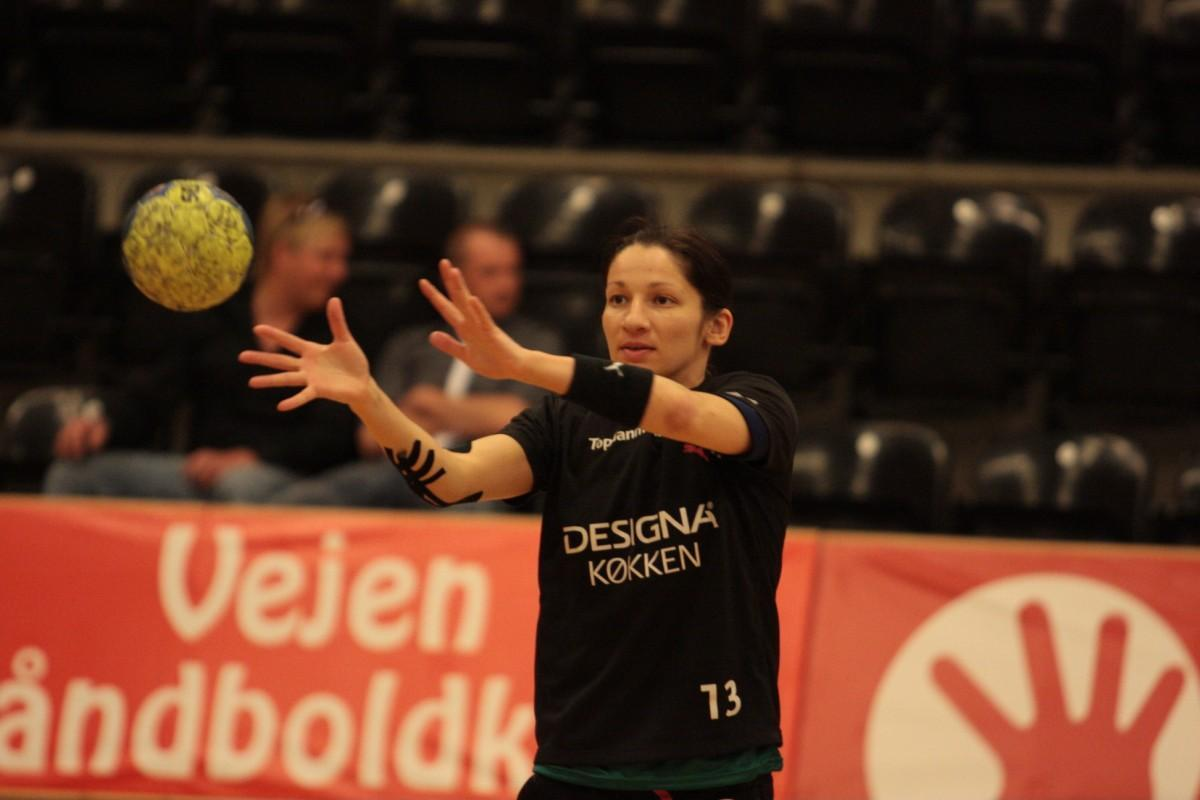 Christina Várzaru, Romanian handball player, warming up before a 2008/09 Danish Championship play off match between KIF Vejen and Viborg HK. The picture was taken on 25 April 2009.